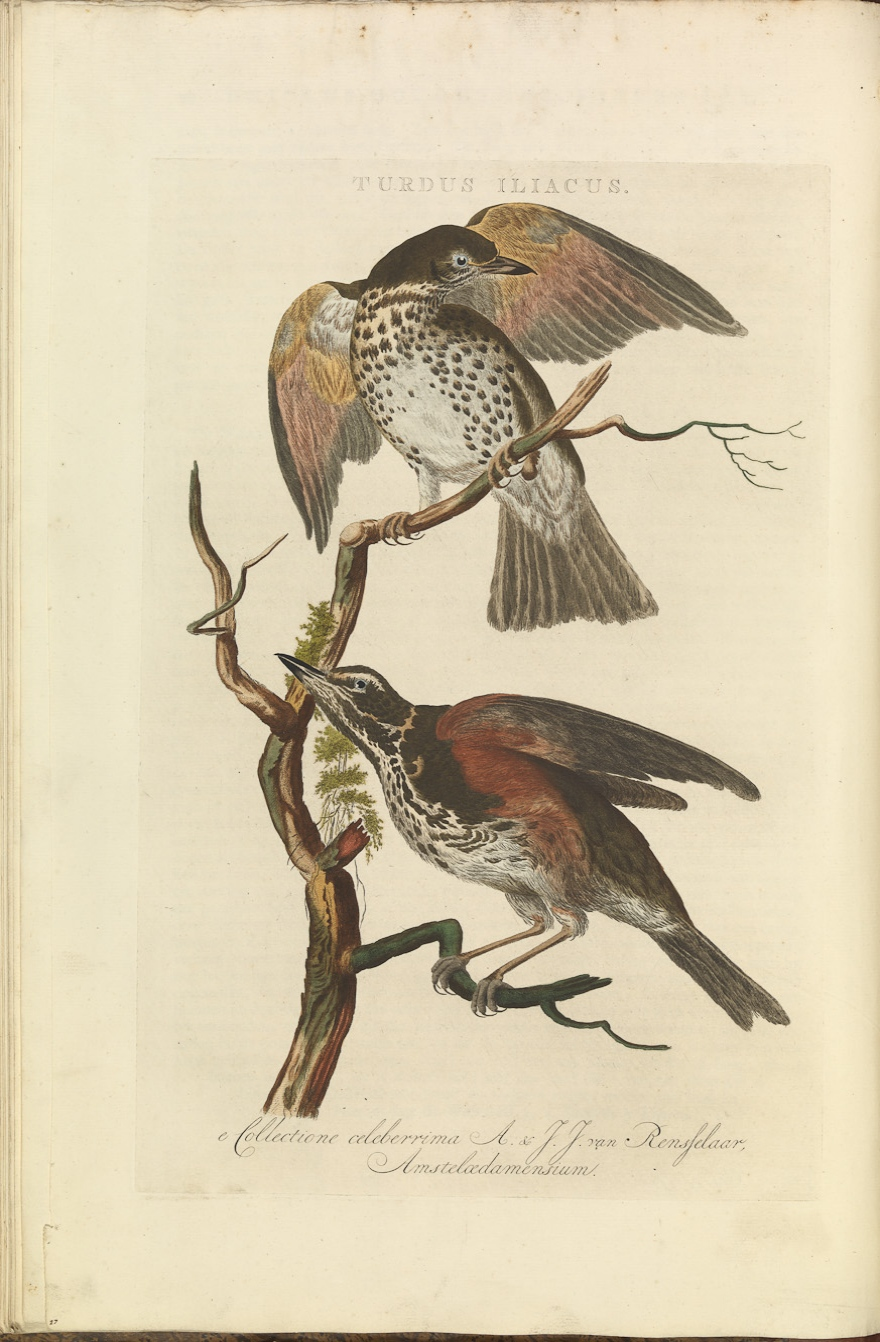 Plate 12 from the Nederlandsche vogelen by Nozeman and Sepp.